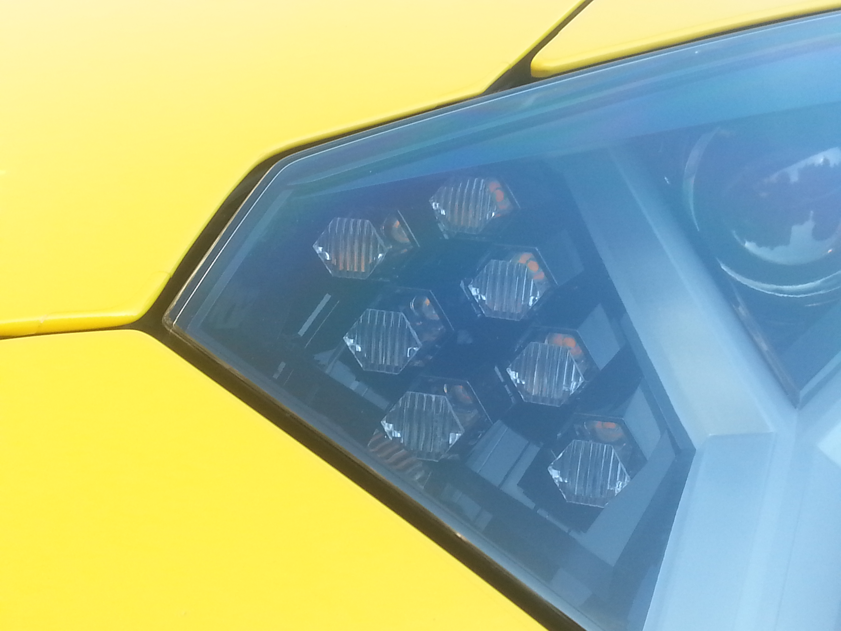 Yellow Lamborghini parked in between the Casino de Montecarlo and the Hotel de Paris, Monaco. August 2016.